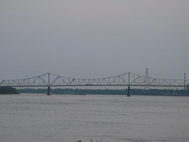 US49 Bridge from MS to AR